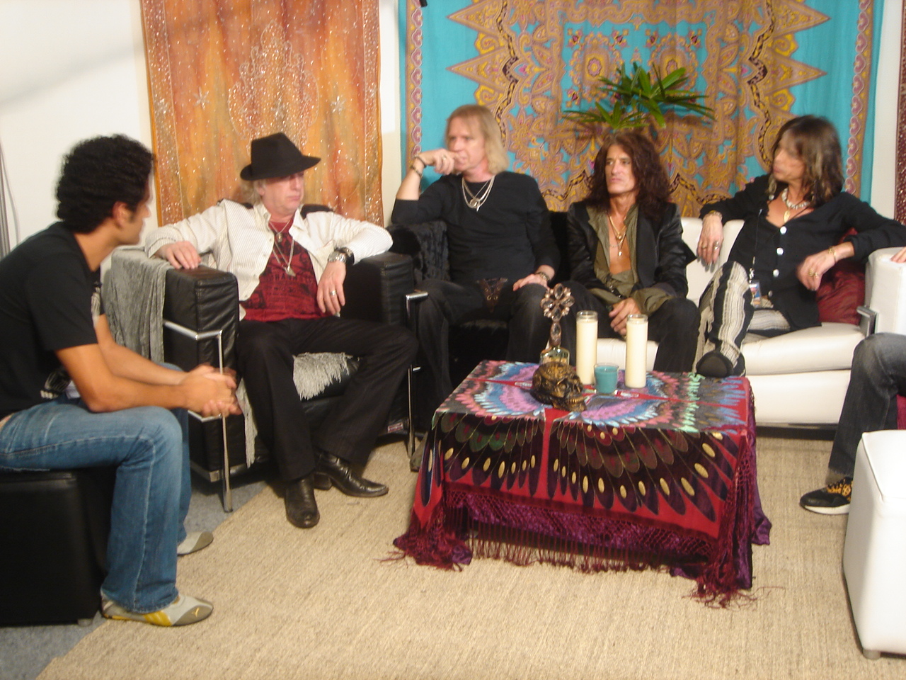 Interview with the MTV in April 2007